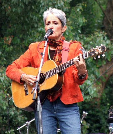 Hardly Strictly Bluegrass Festival 2005. Golden Gate Park - San Francisco, CA. Photo by Ron Baker.